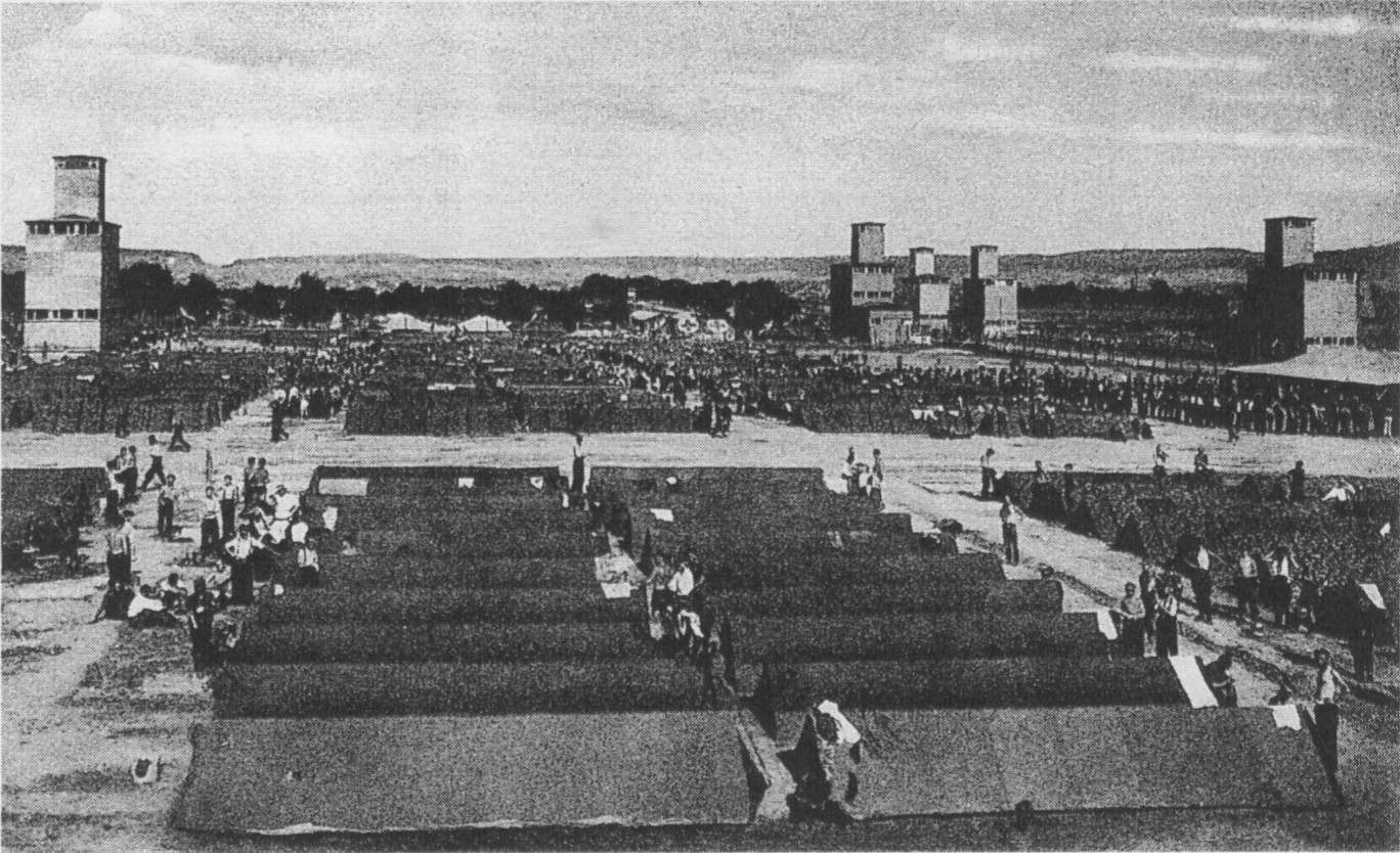 The American POW camp PWTE C-3 in Heilbronn, Germany, ca. May or June 1945